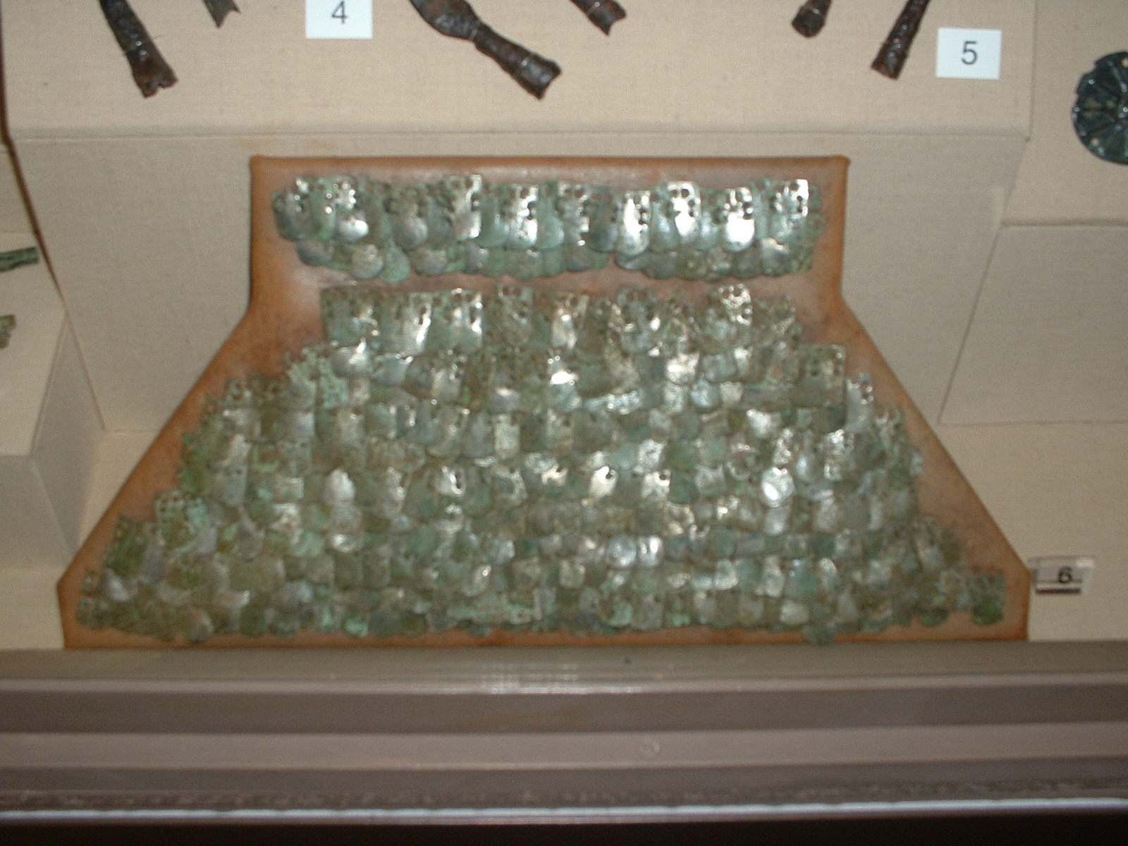 Photograph was taken in the Somerset County Museum in Taunton on 29-Oct-05.